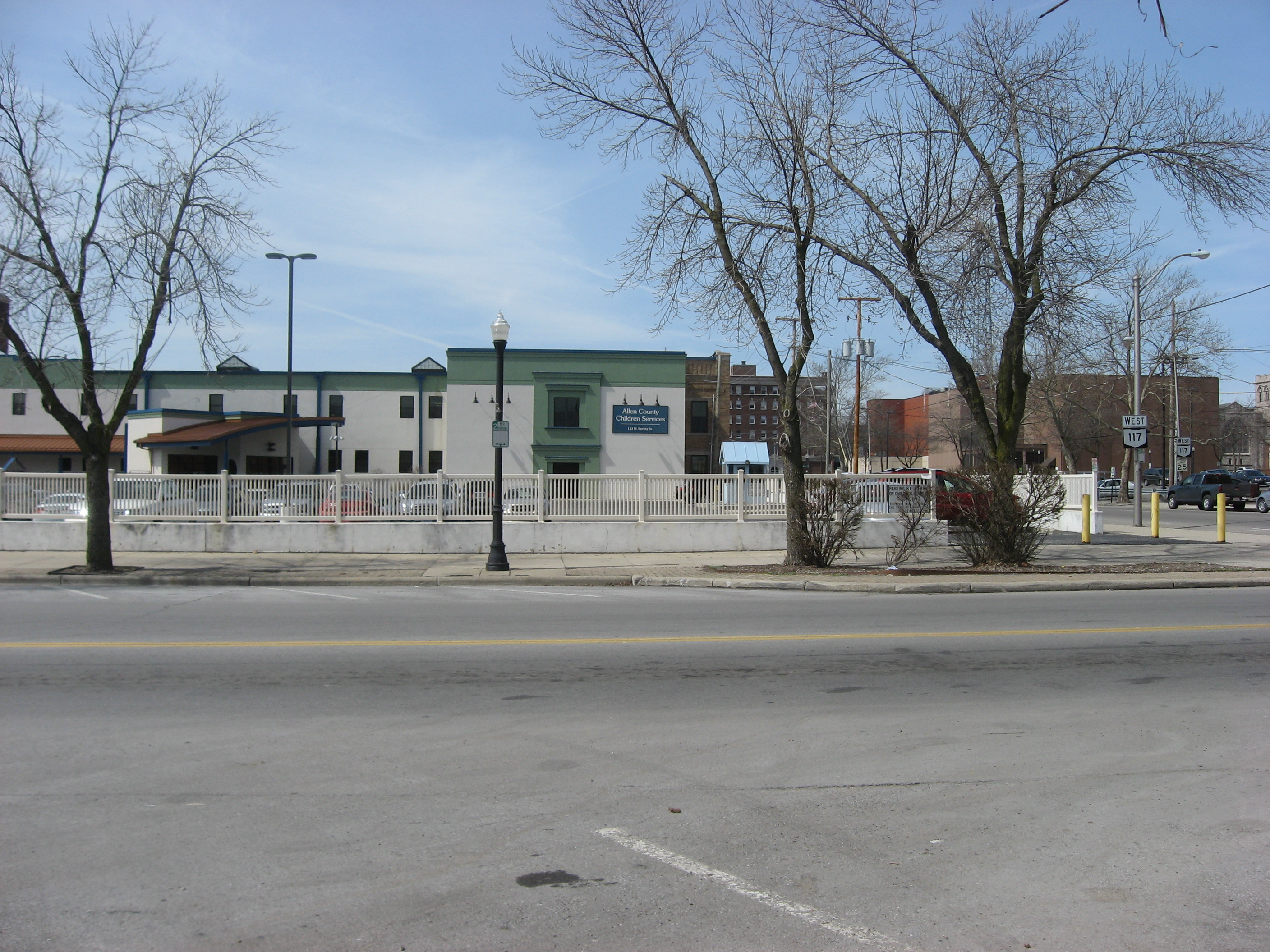 Site of the Beck and R.C. Cahill Buildings at 200-206 S. Main Street in Lima, Ohio, United States. Built in 1890, the buildings are listed on the National Register of Historic Places, even though they have been destroyed.